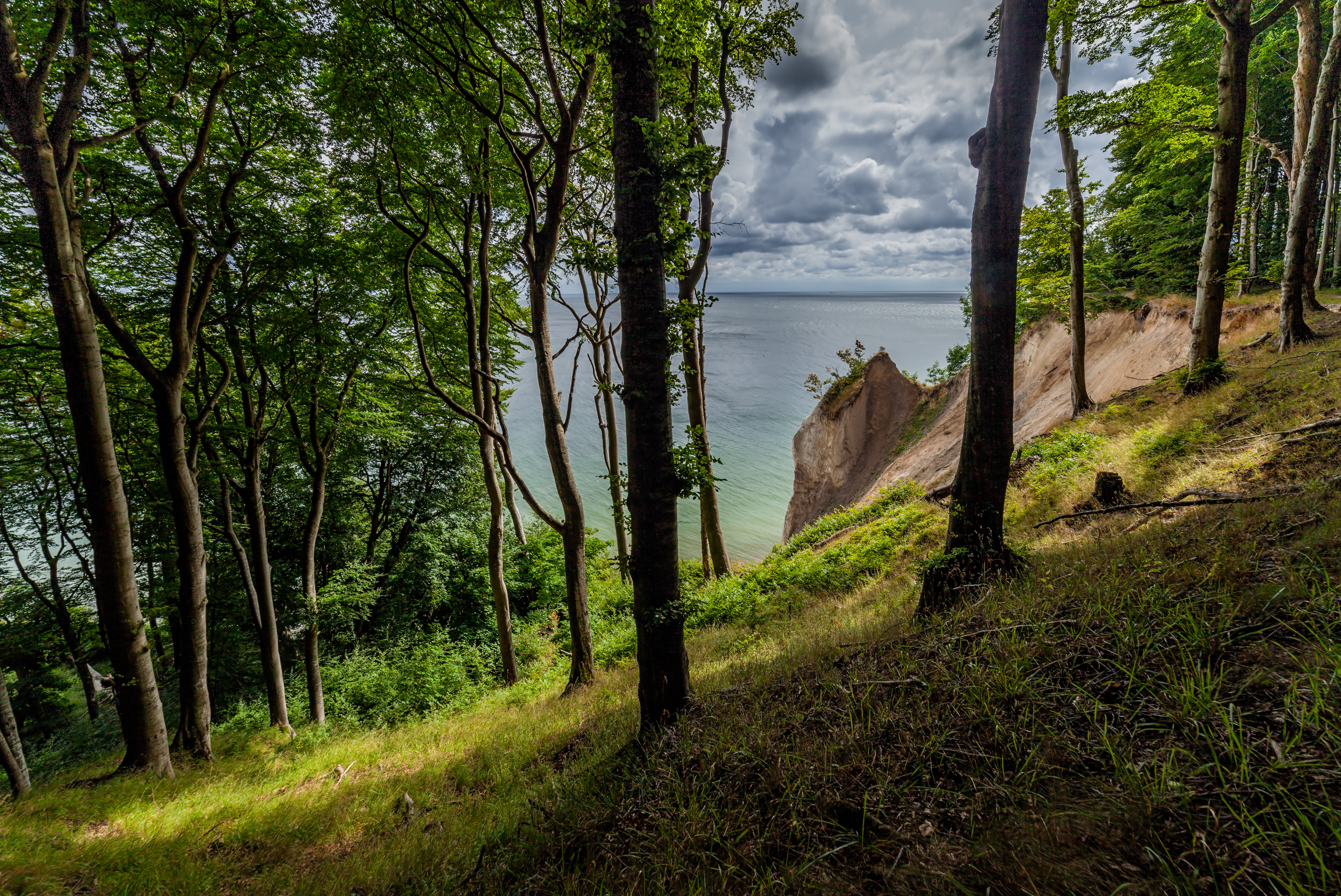 The sunrise in Jasmund national park, Rügen island in Mecklenburg-Vorpommern, Germany.